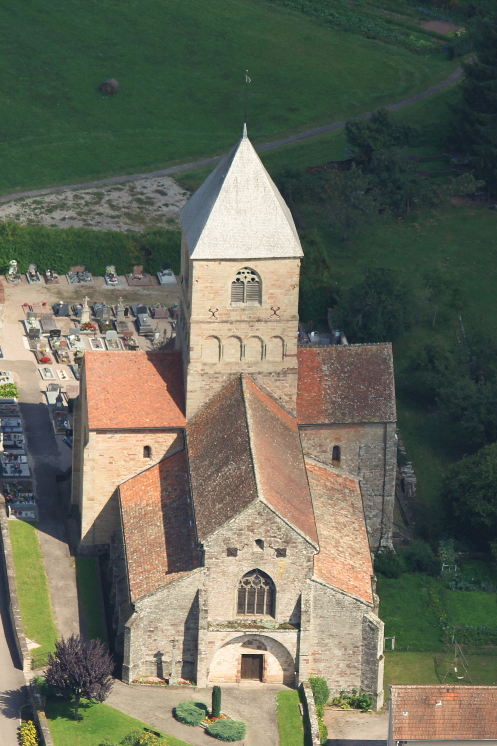 Église Romane de Relanges